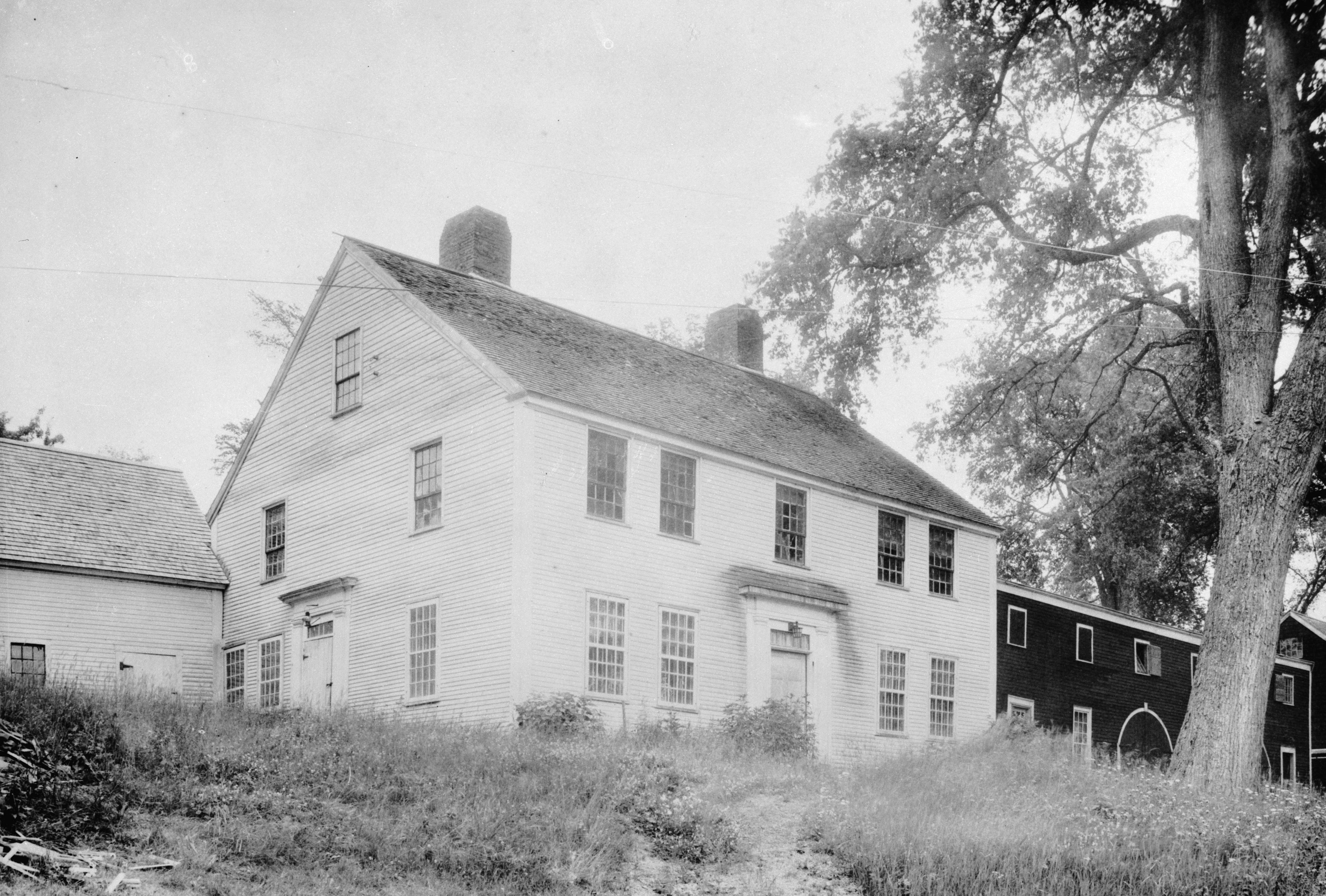 Front of the Jeremiah Jewett House, located along Church Street in Head Tide, a village in Alna, Maine, United States. Built in 1800, it is part of the Head Tide Historic District, a historic district that is listed on the National Register of Historic Places.